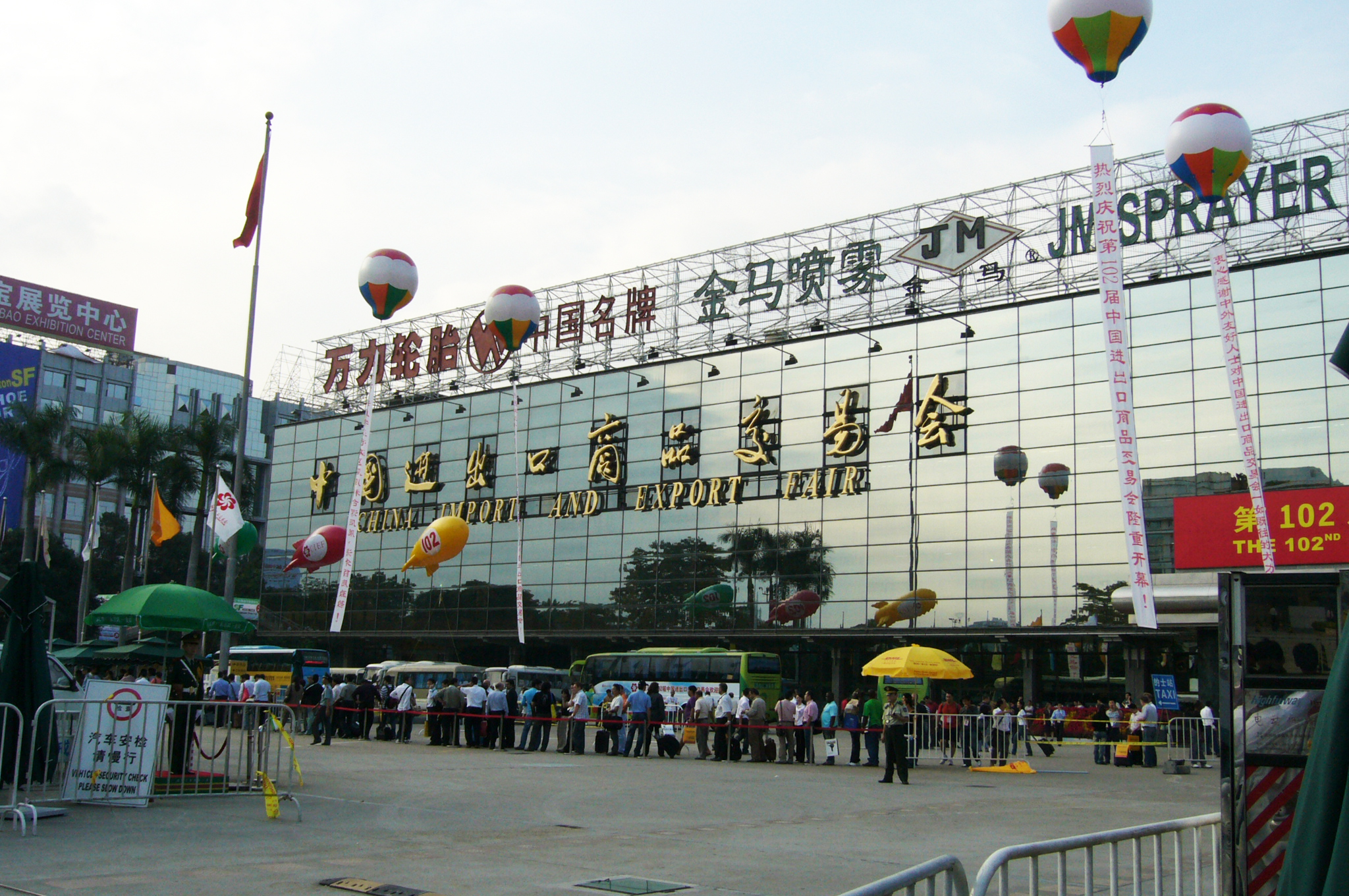 102nd Session of China Import and Export Fair(Canton Fair), Liuhua Complex.